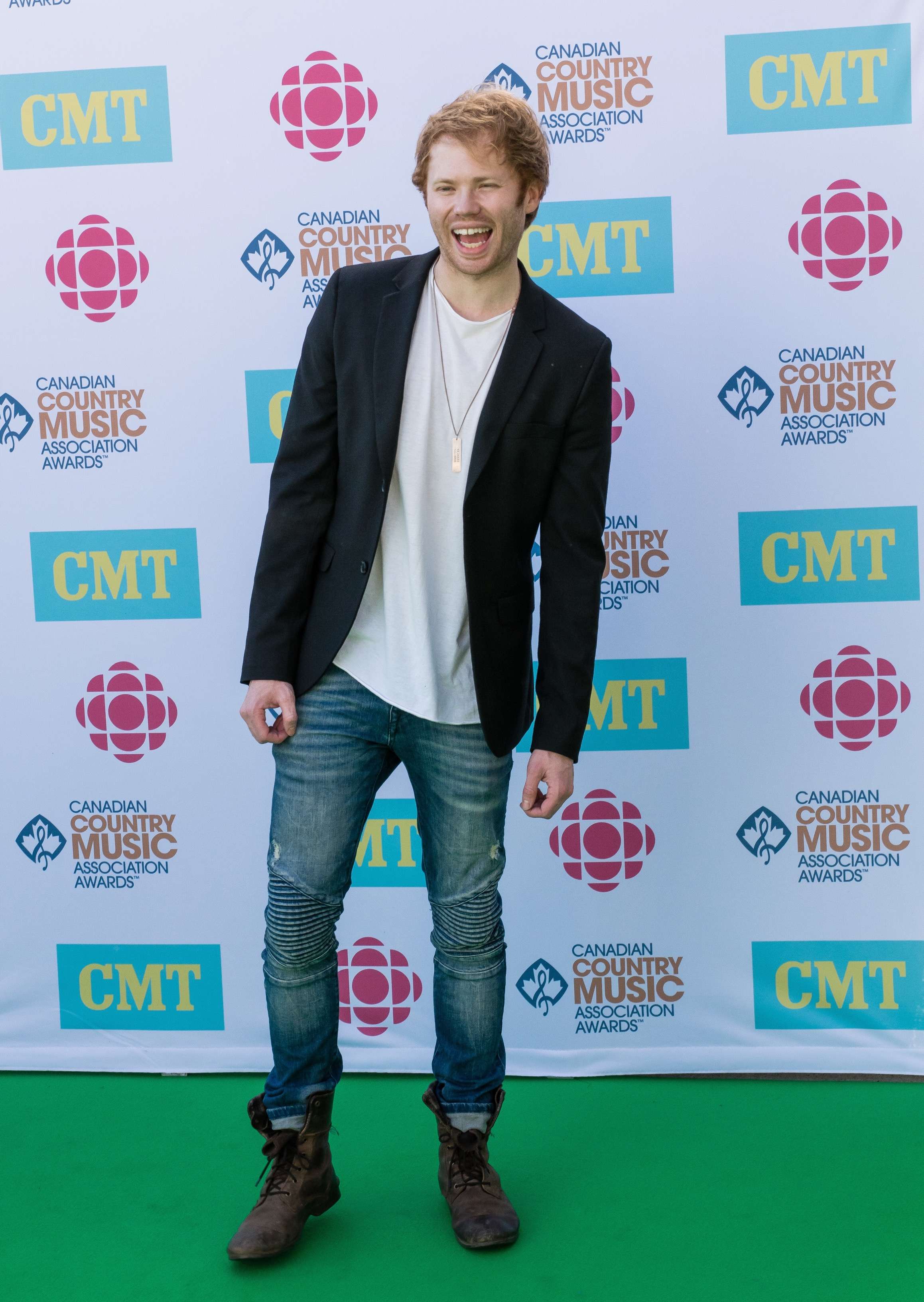 Wes Mack on the Green Carpet at the 2016 CCMA Awards where he was nominated for Album of the Year for Edge of the Storm.